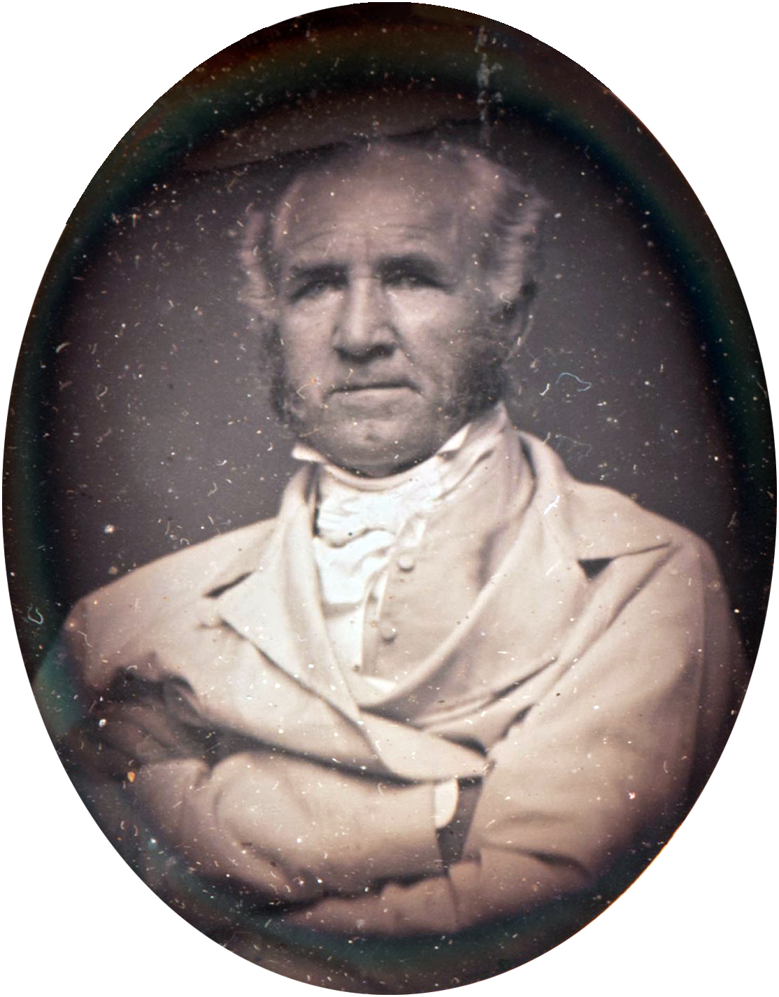 Ninth plate daguerreotype of Sam Houston wearing a linen duster in a crossed-arms pose.